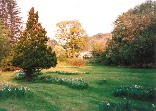 The old Factors' house on Ardtornish estate.